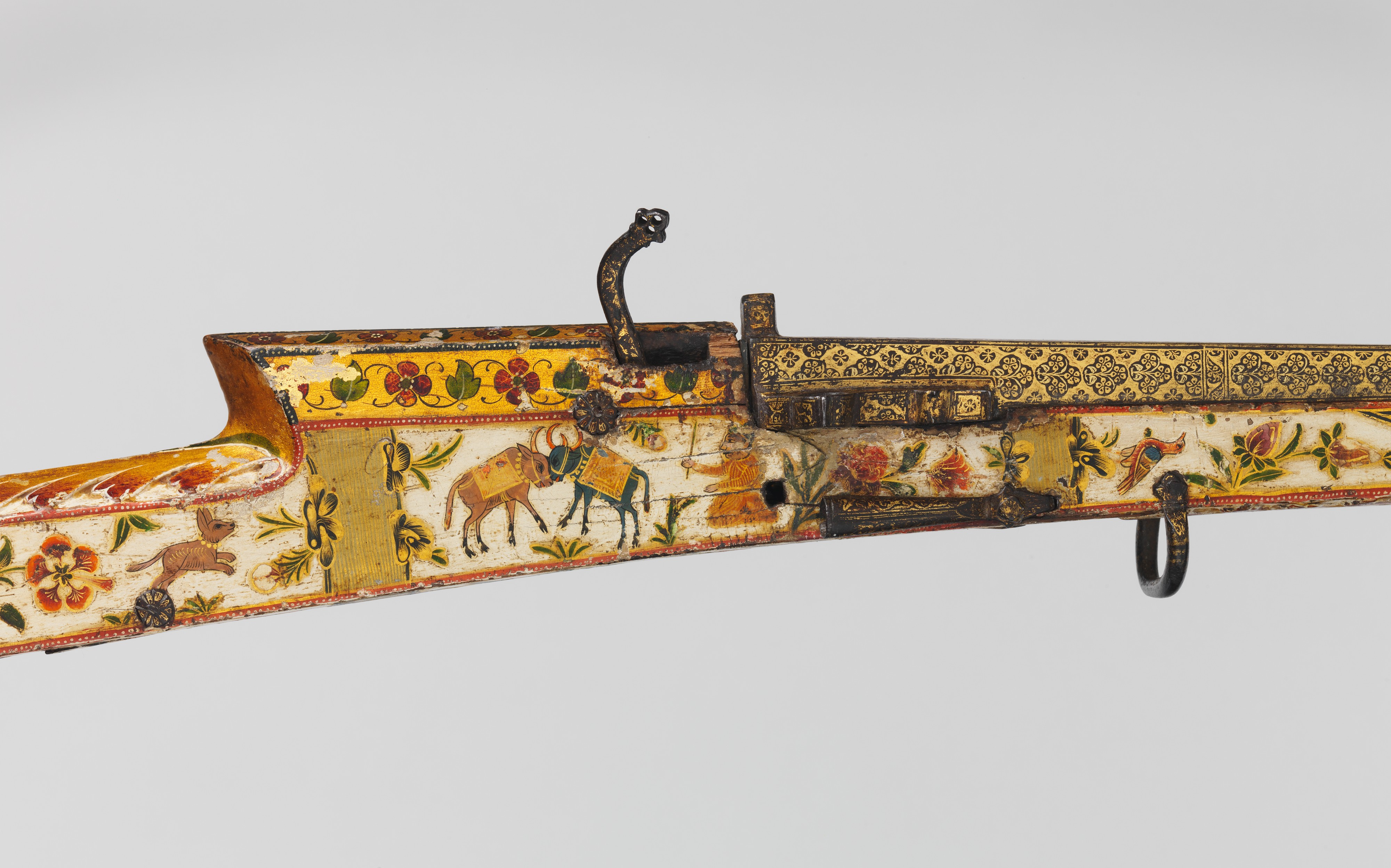 Indian, Rajasthan or Lahore; Matchlock gun; Firearms-Guns-Matchlock